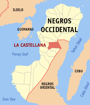 Map of Negros Occidental showing the location of Castellana